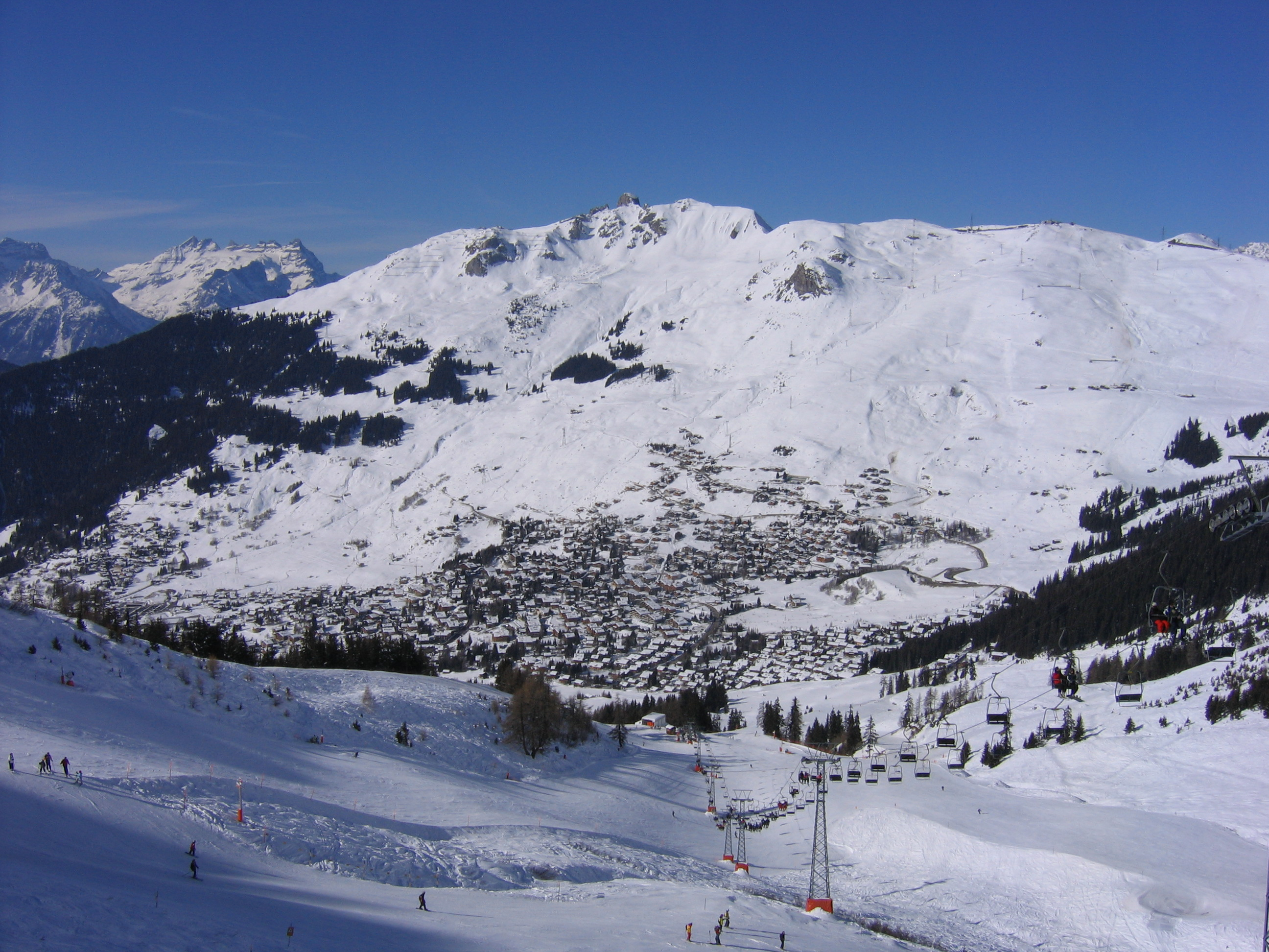 Verbier, canton Valais